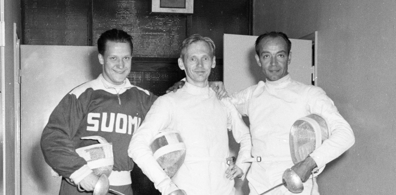 Photograph of three Finnish fencers at the 1952 Summer Olympic Games: Rolf Wiik (1929–2007), Kauko-Aatos Jalkanen (1918–2007), and Erkki Kerttula (1909–1989).